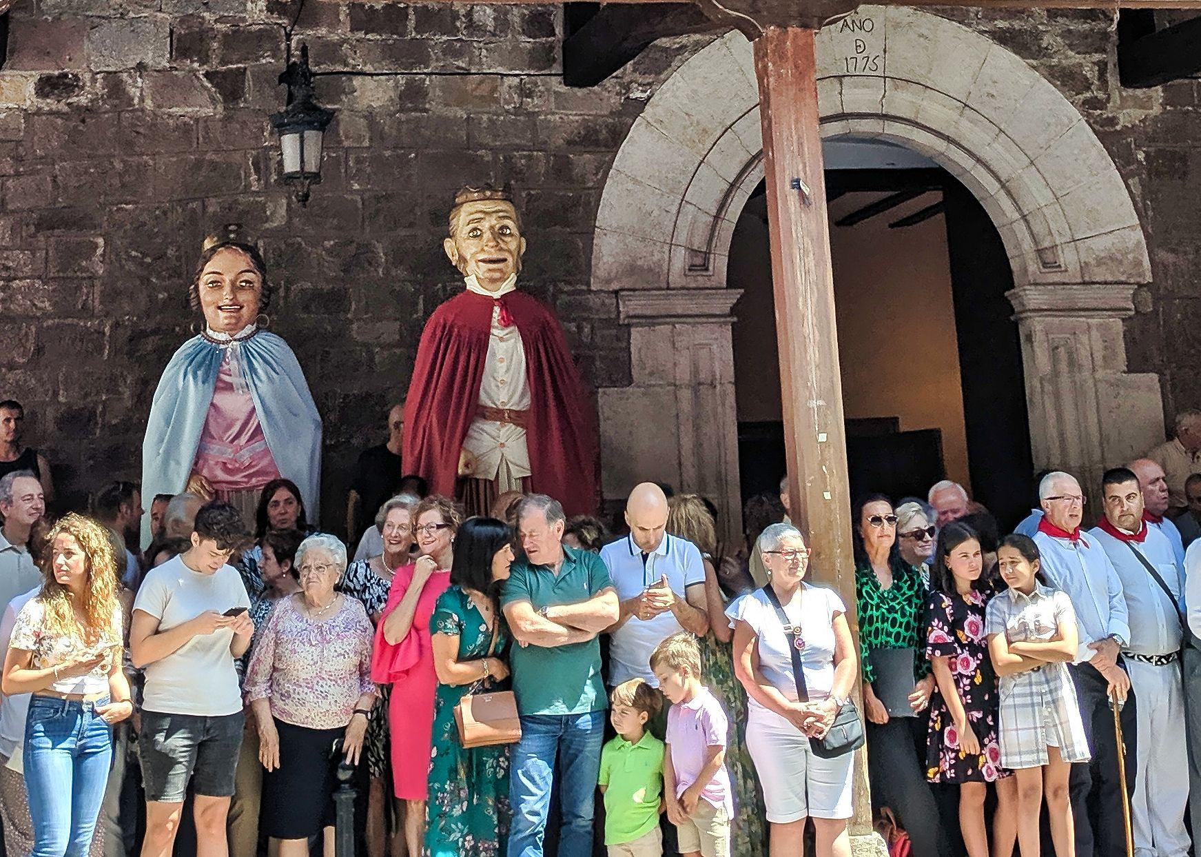 El día de San Pedro todo el pueblo se reúne después de la misa mayor en el pórtico de la iglesia para presenciar el baile de la bandera y el Trapatan. Irudi hau Wikibizi kanpainaren baitan igo da, Euskal Wikilarien Kultura Elkarteak 2020an deitutako argazki lehiaketa hirukoitza. Helburua, Euskal Herria hobeto ezagutzen laguntzea da.Lagundu zuk ere irudi hau dagokion artikuluetan txertatzen.